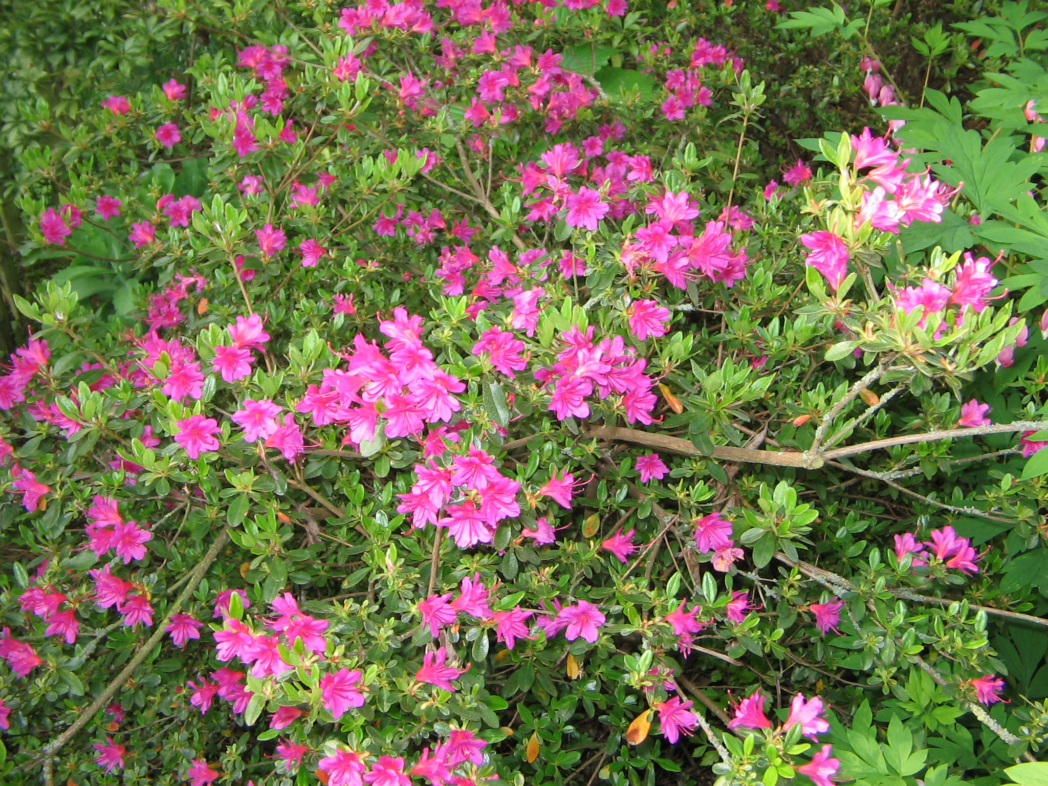 Rhododendron 'Amoena'